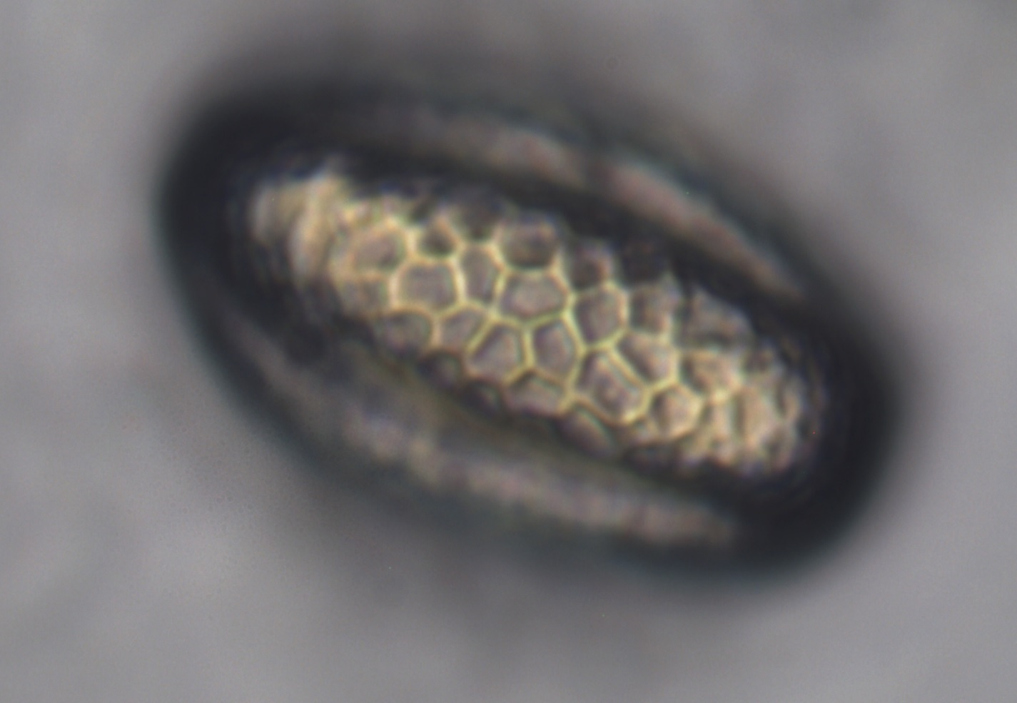 Pollenkorn des Flieders (400x)